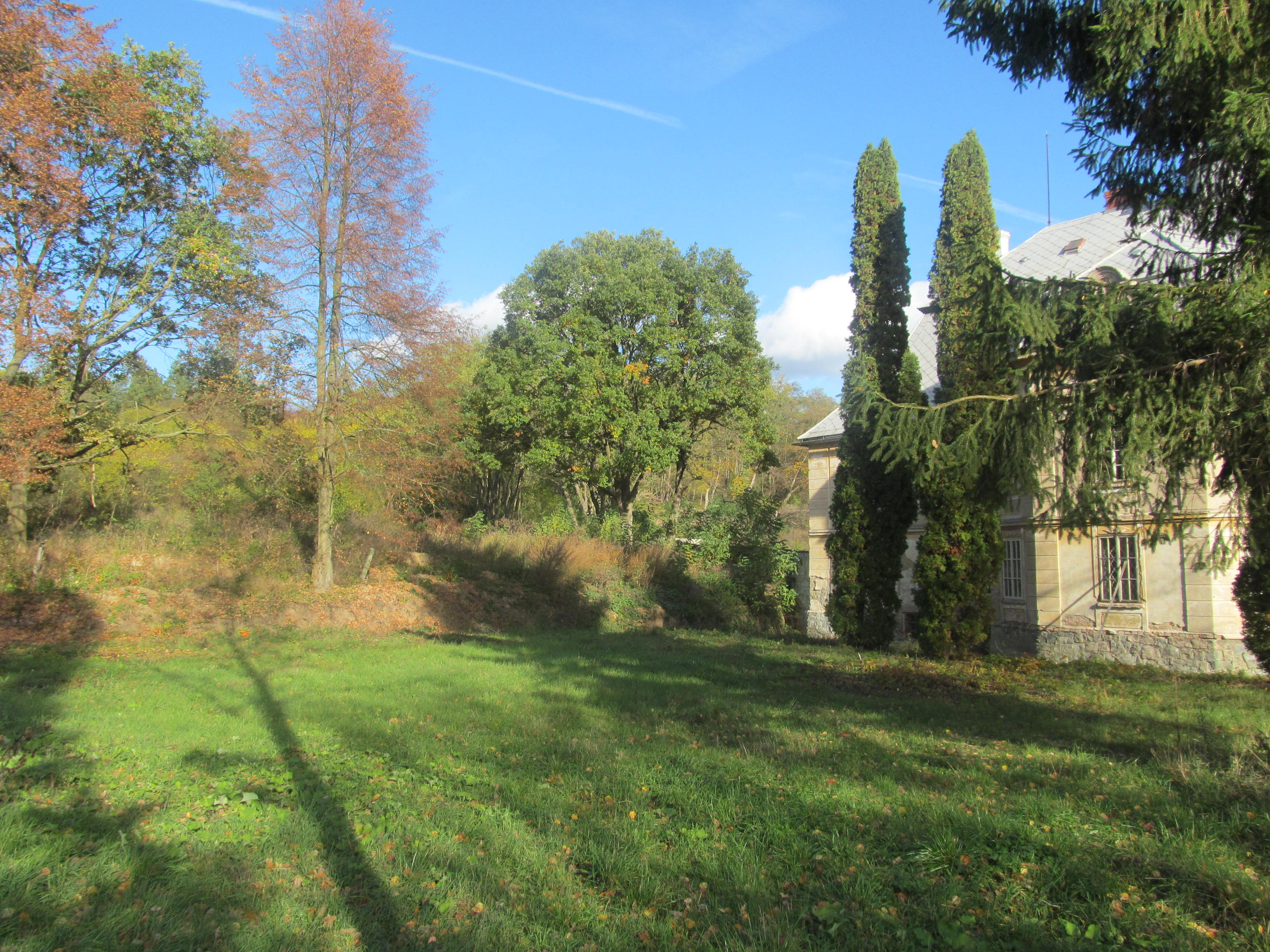 Potential rests of walls of the fortress Chmelice by the Staňkovice castle